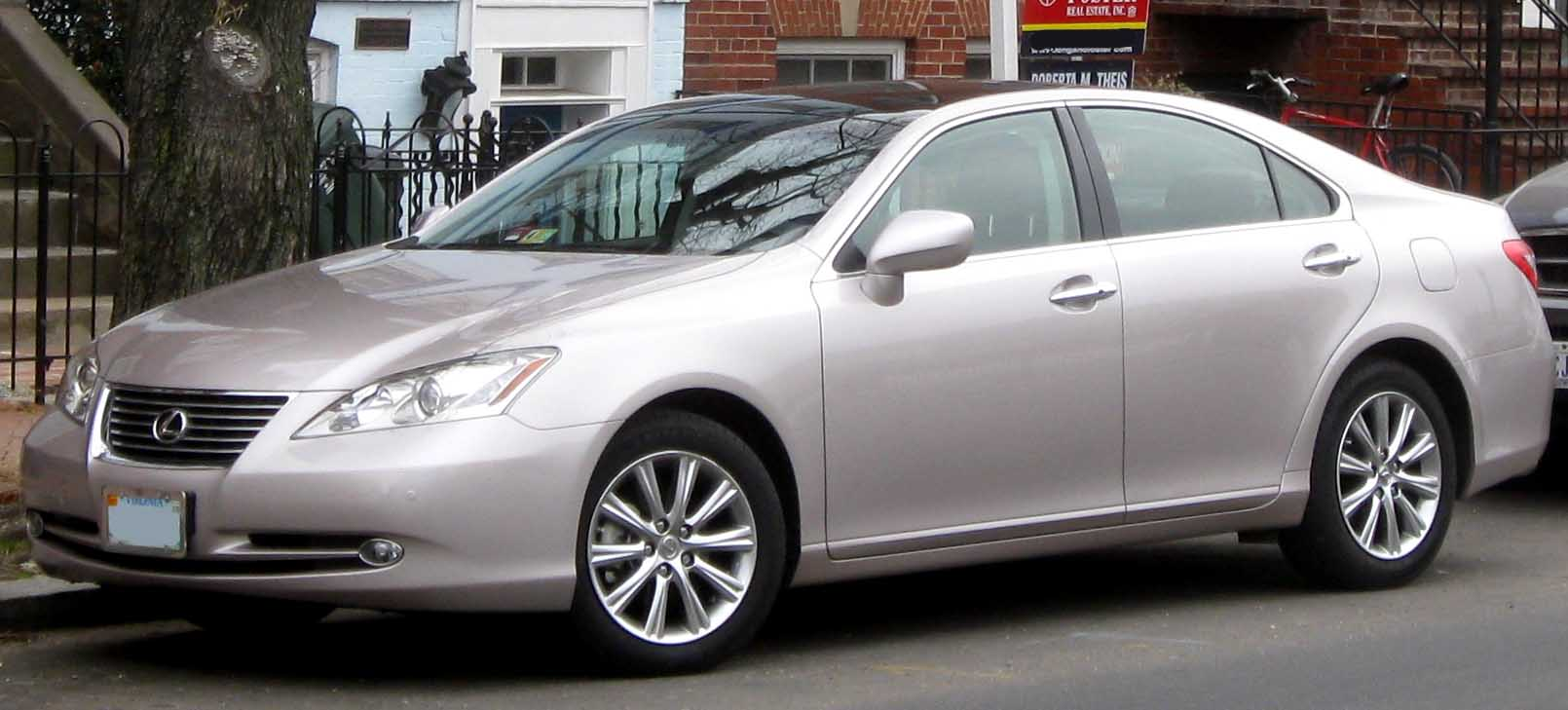 2007-2009 Lexus ES350 photographed in Washington, D.C., USA.